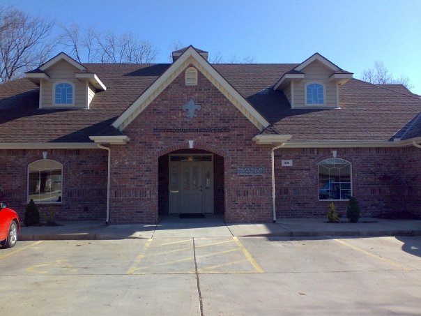 Cherokee Area Council (Oklahoma)